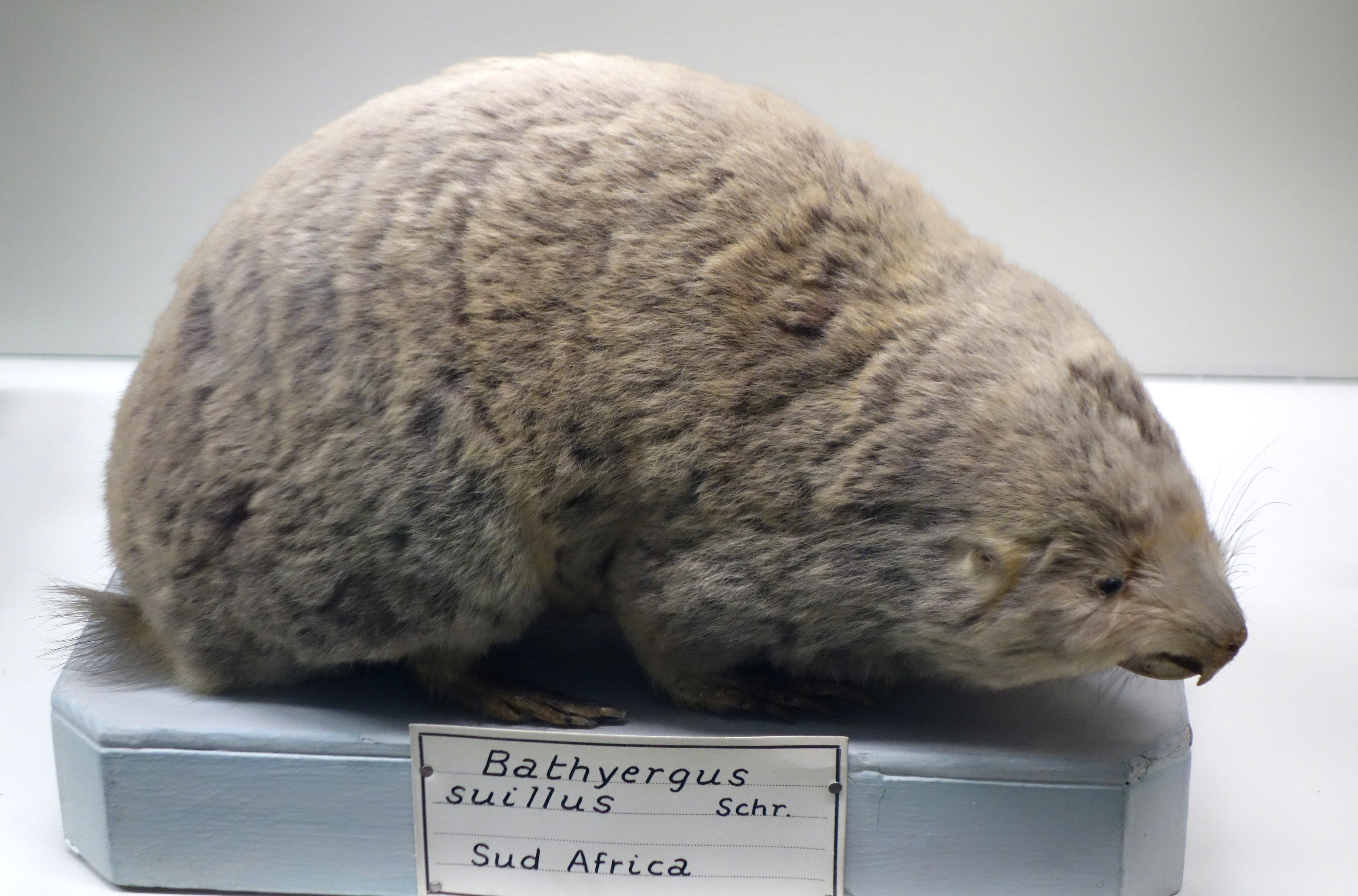 Exhibit in the Museo Civico di Storia Naturale di Genova, Via Brigata Liguria, 9, 16121, Genoa, Italy.